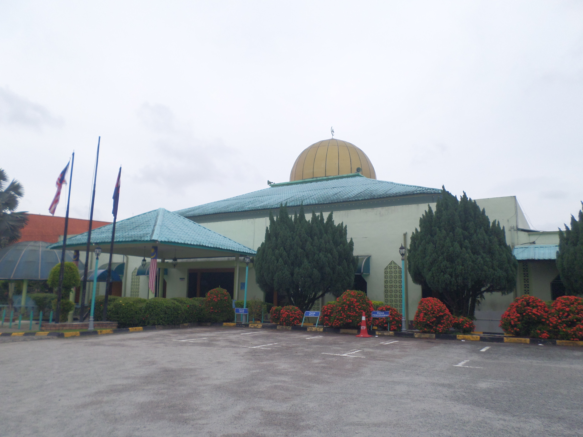 Taman Perling Jamek Mosque, Taman Perling, Iskandar Puteri, Johor Bahru, Johor, Malaysia